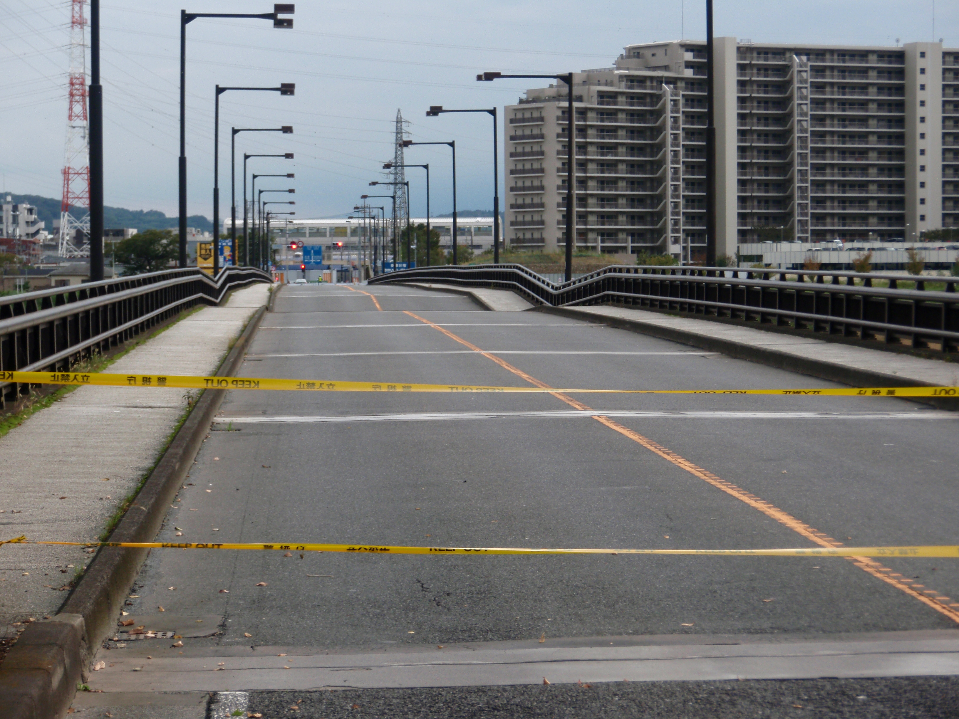 Hino Bridge damaged by Typhoon Hagibis (2019), Tama River, between Hino and Tachikawa, Tokyo, Japan.